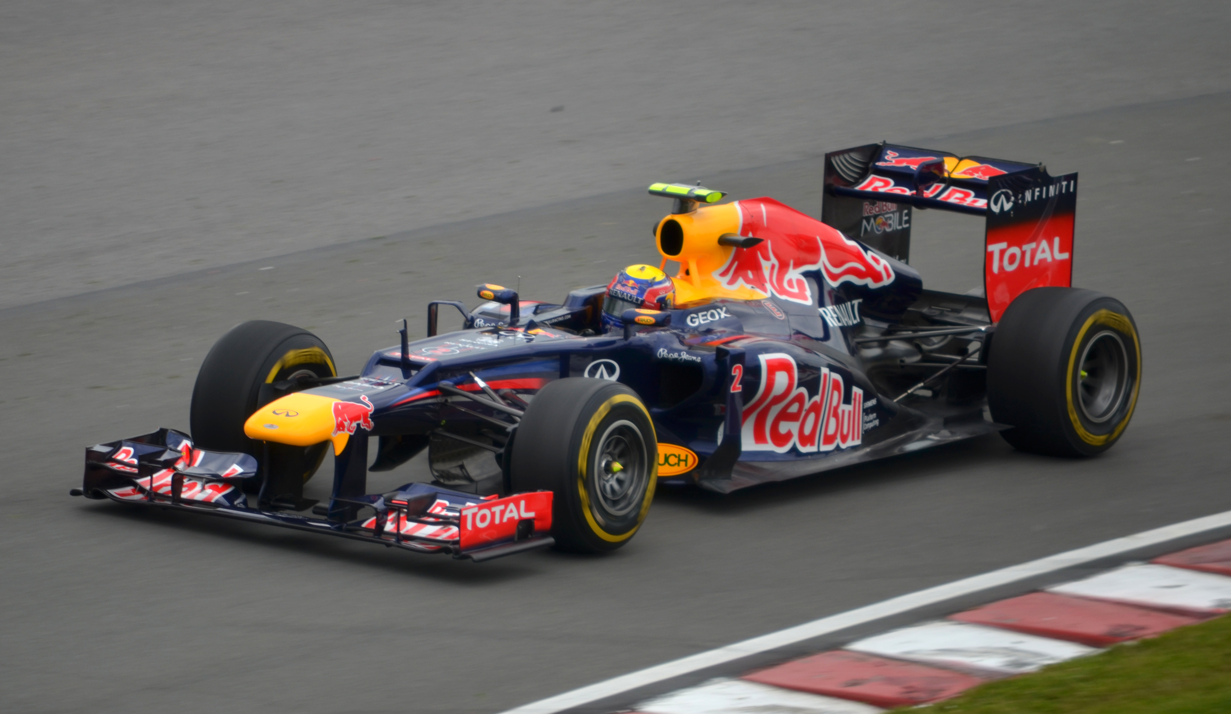 Mark Webber in the Red Bull - Renault RB8 at turn 9 of Circuit Gilles Villeneuve during first practice for the 2012 Canadian Grand Prix